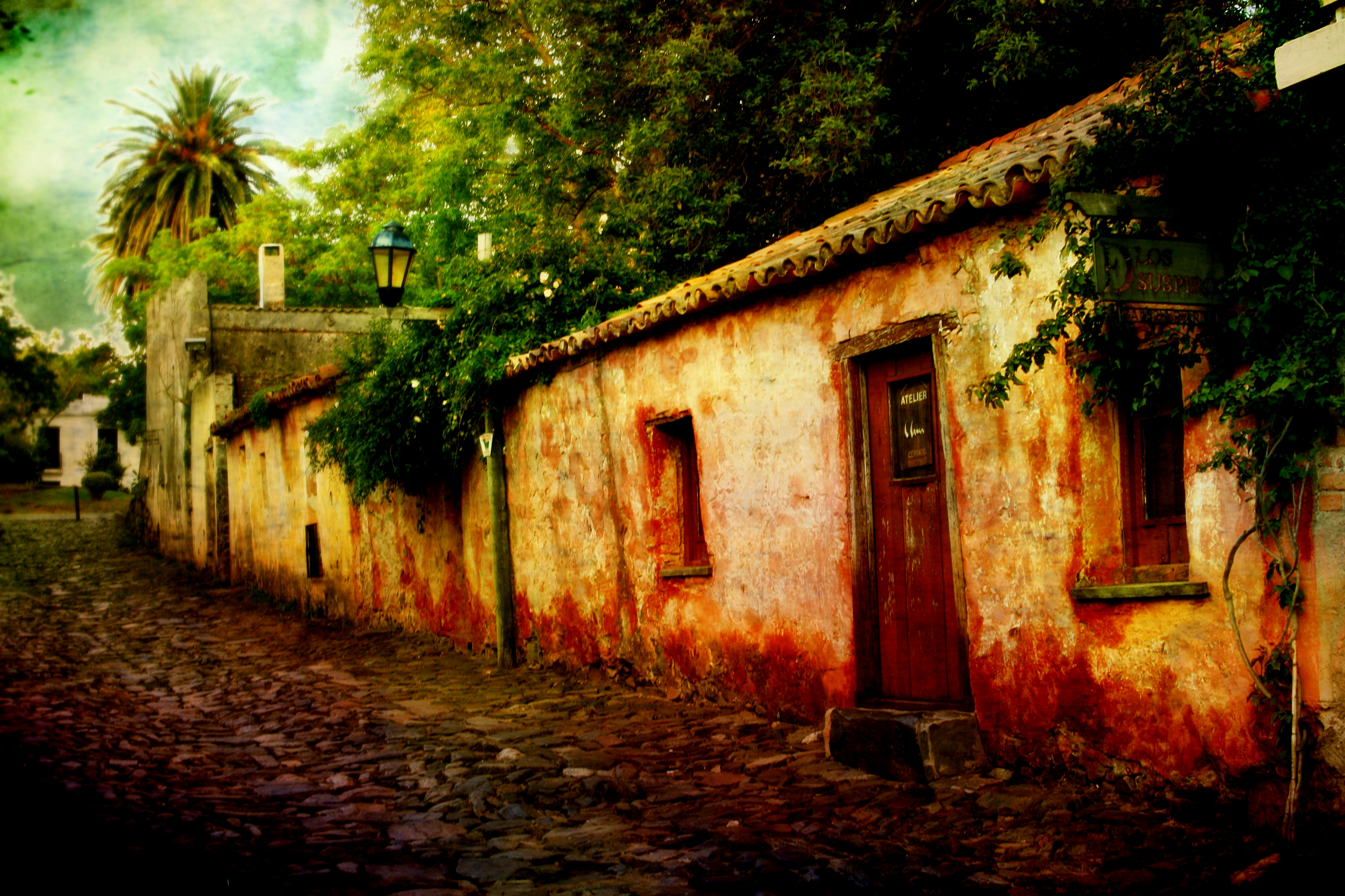 Old town in Colonia del Sacramento, Uruguay. The village is a world heritage located in southwest Uruguay, South America.